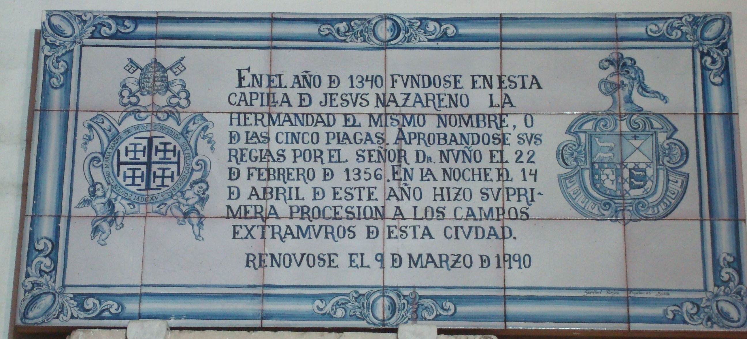 Placa Omnium Sanctorum Fundacion Hermandad El Silencio Sevilla